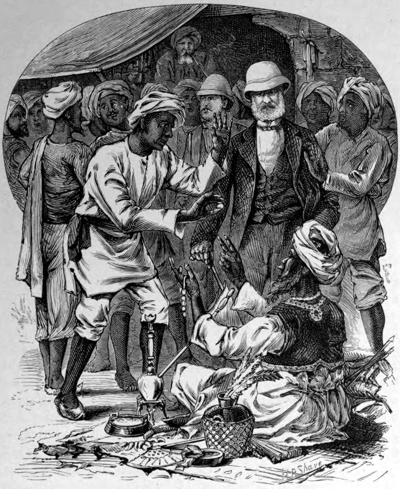 Drawing of businessman and former Secretary of the Navy Edward E. Borie purchasing in India